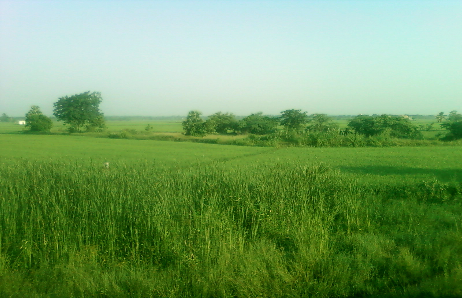 Paddy fields near Pithapuram, East Godavari district